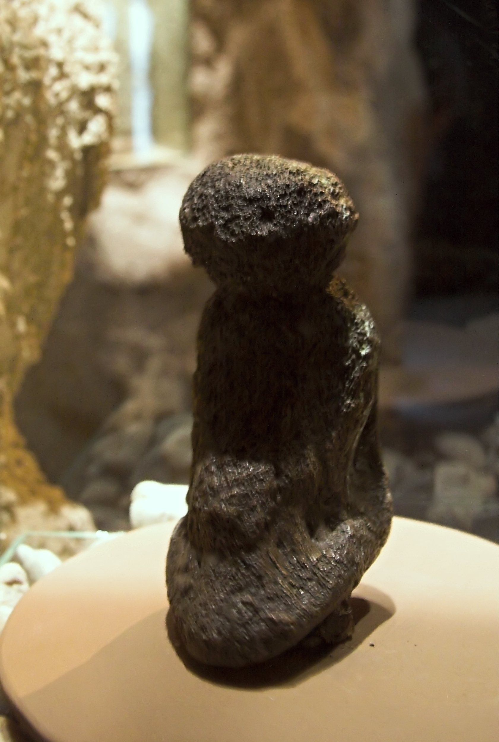 One of th seven female statuettes from modified mammoth phalanges. Předmostí u Přerova (Central Moravia, Czech Republic), Gravettian. Original. Temporary exhibition the Mammoth hunters in the NM Prague. The Moravian Museum (Brno).